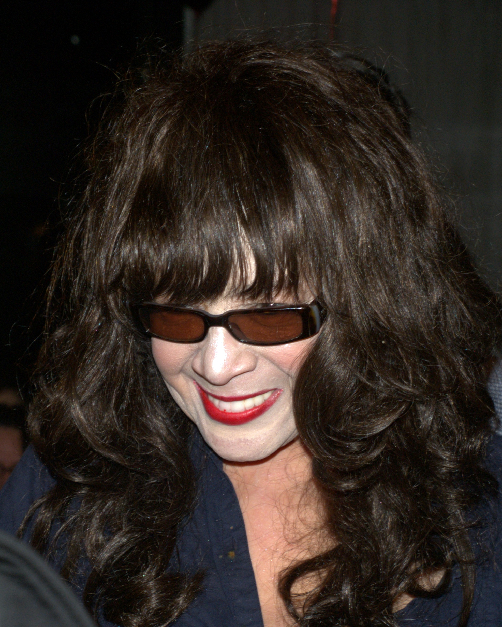 Ronnie Spector at the 25th Anniversary party of Michael Musto writing for The Village Voice